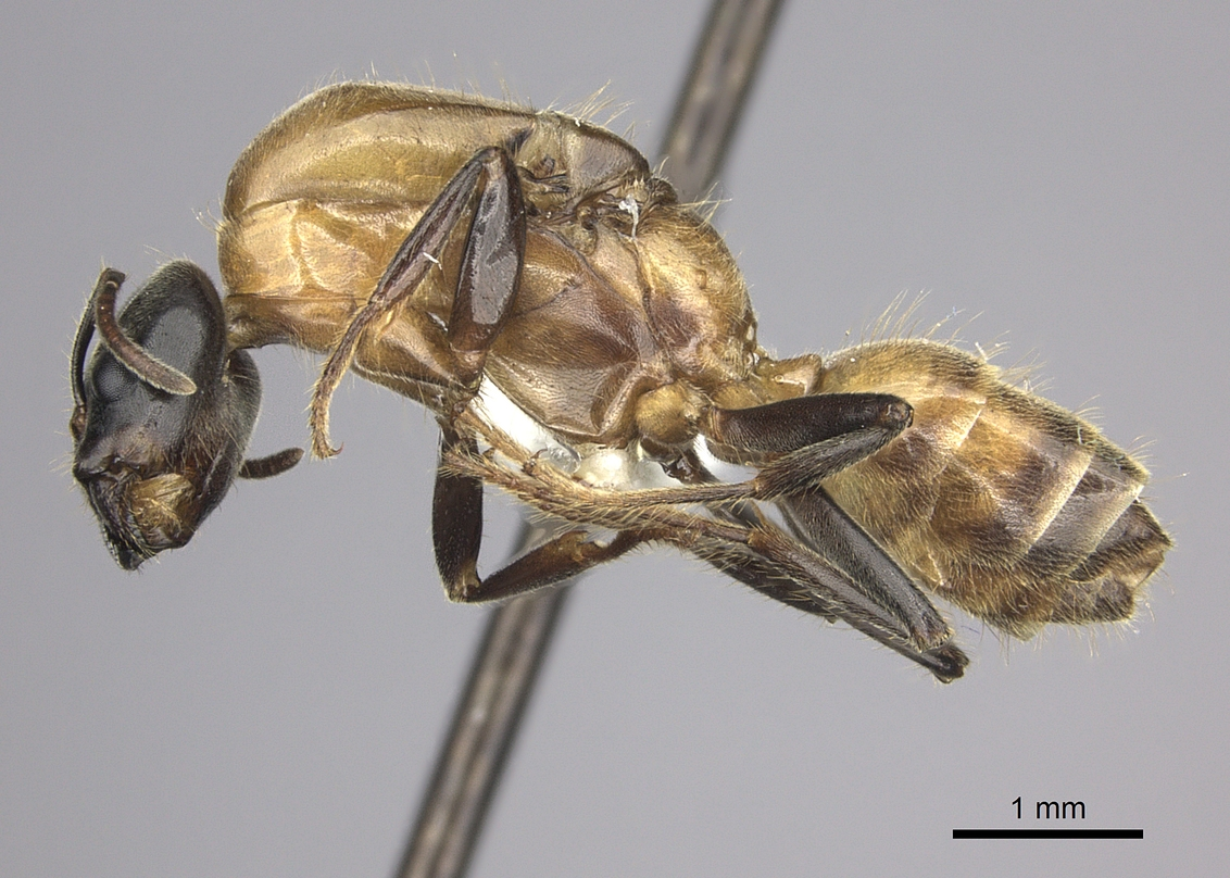 Profile view of ant Azteca muelleri specimen casent0249596.